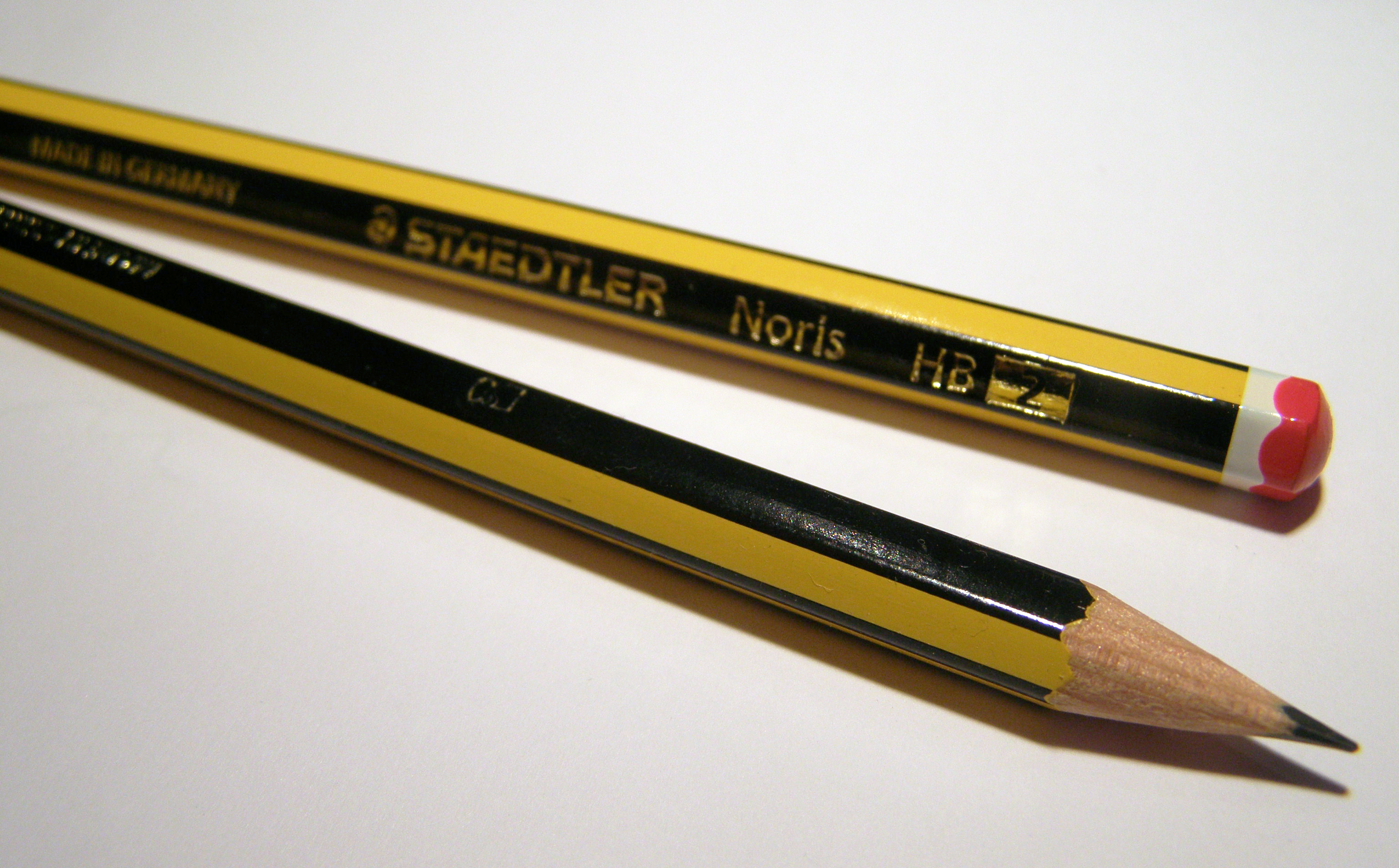 Pair of Staedtler Noris pencils